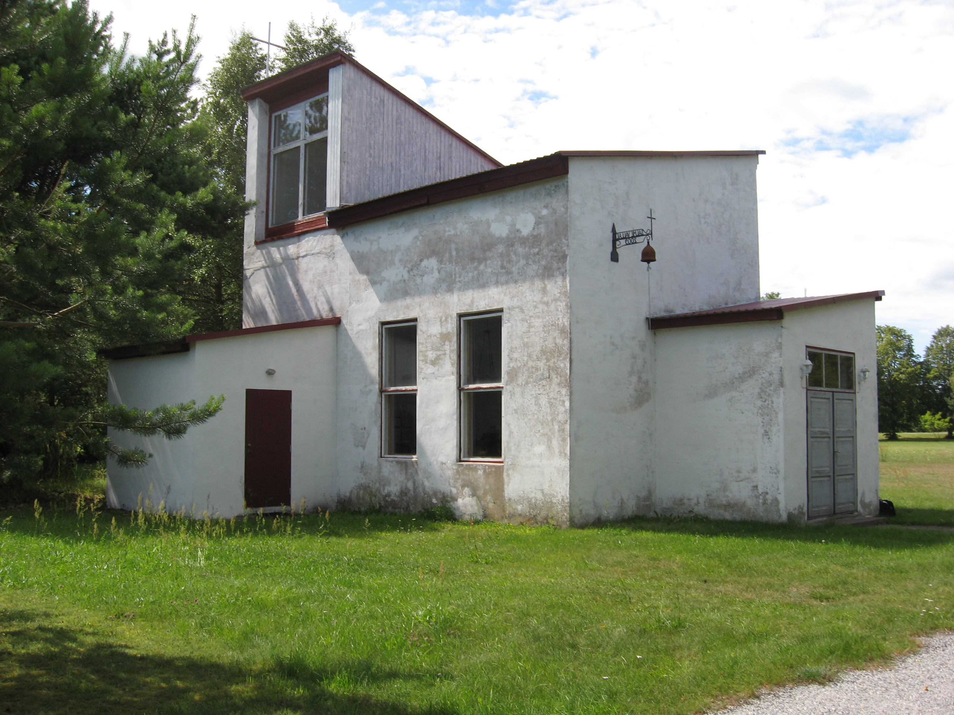 Church in Salme (Saaremaa)